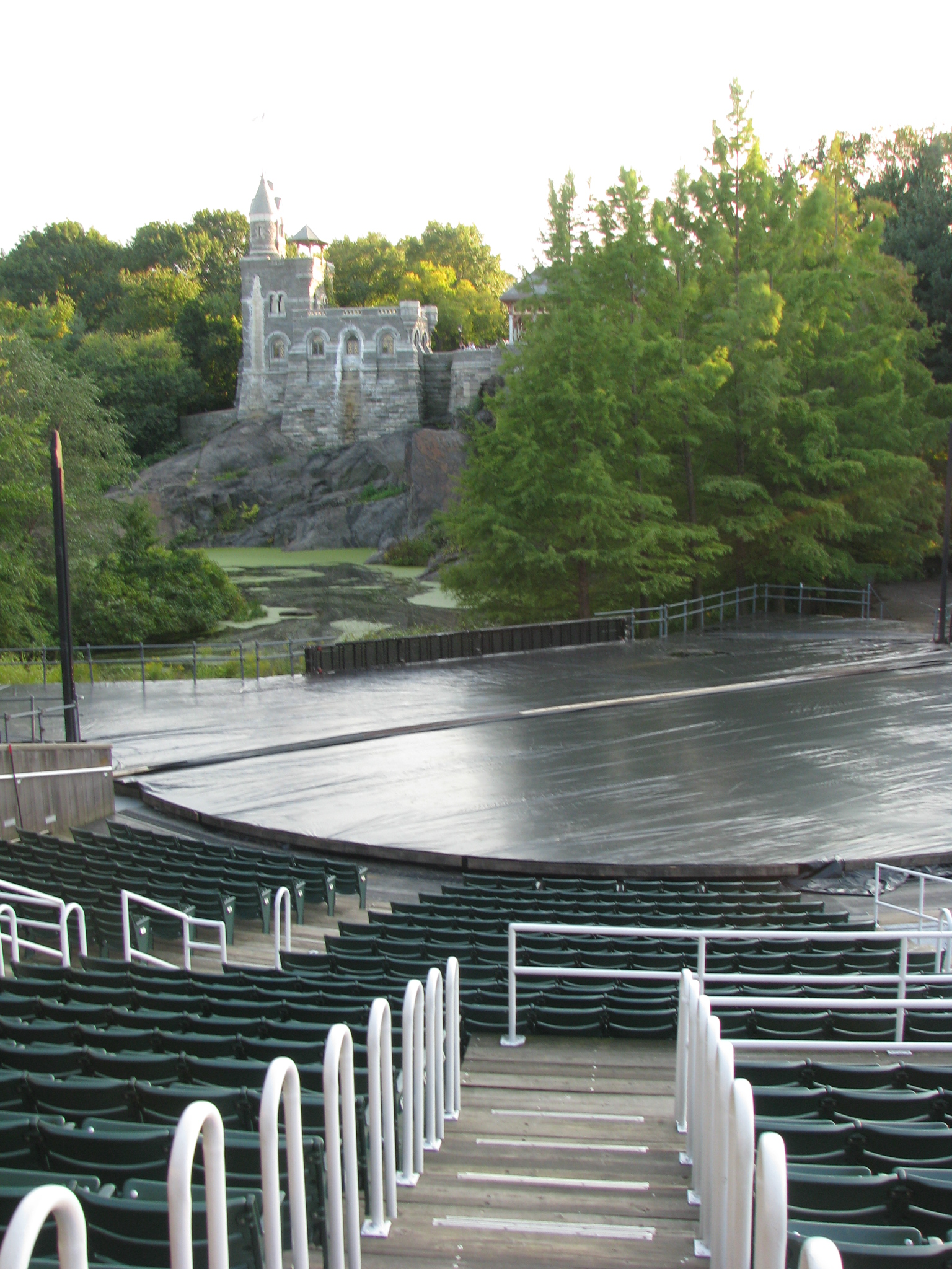 This photo is of Wikis Take Manhattan goal code A15, Delacorte Theater.